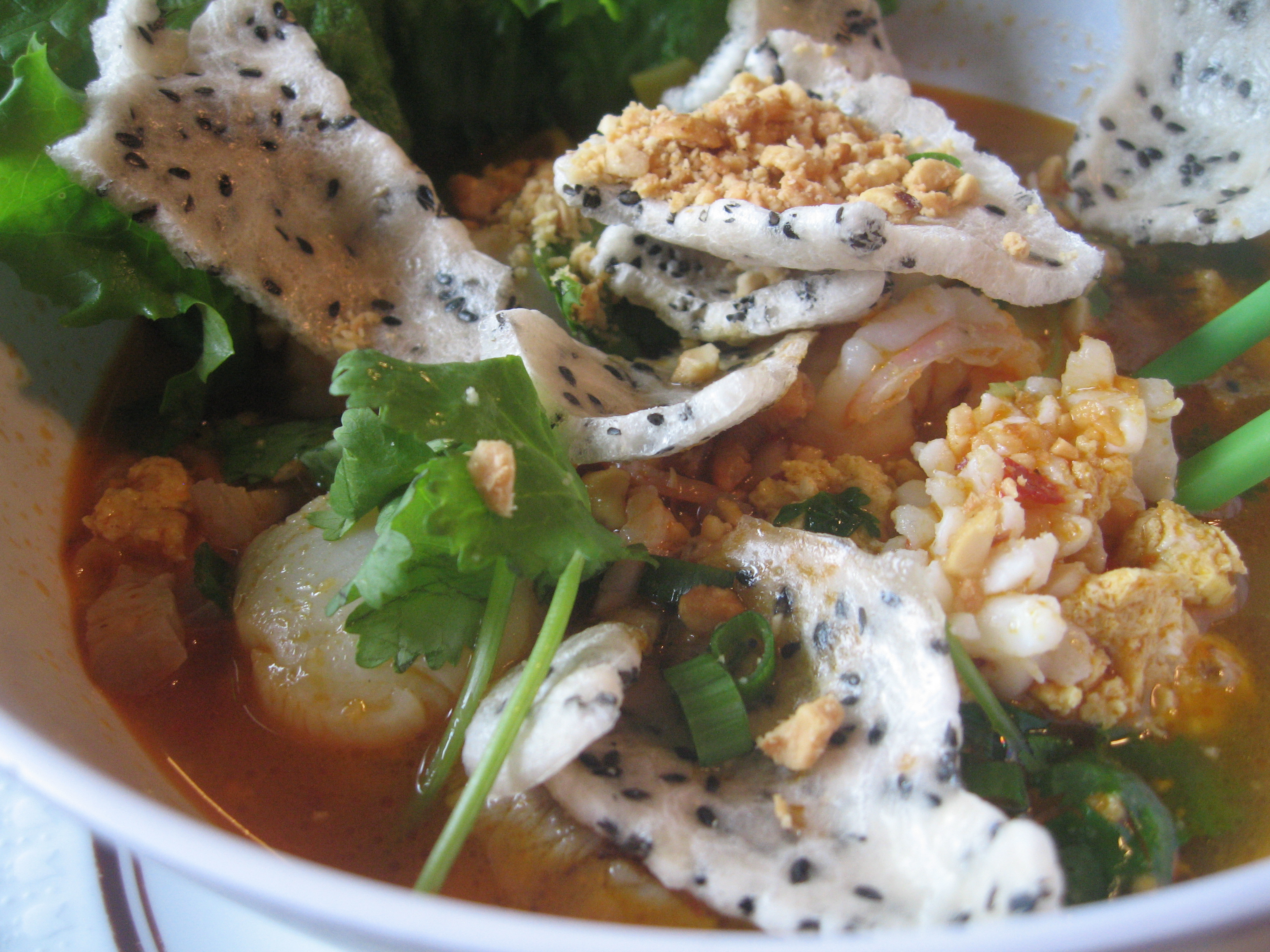 Mì Quảng is a Quang Nam style noodle soup with pork and shrimp. It's one of those regional specialties that I'm only just now getting to enjoy. This dish had a lot of great flavors going on, primarily from the tomato-tinged broth. Small dried shrimp gave a nice salty edge and the noodles were broad, fettucini-like, and cooked al dente. On the top were the prerequisite bánh đa (toasted rice cracker). @ Yen Ha